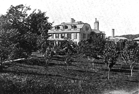 Jeremy Gridley house, Brookline, Mass. Built 1740, demolished 1886.